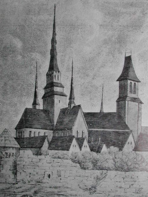 Church of St Georges Rennes